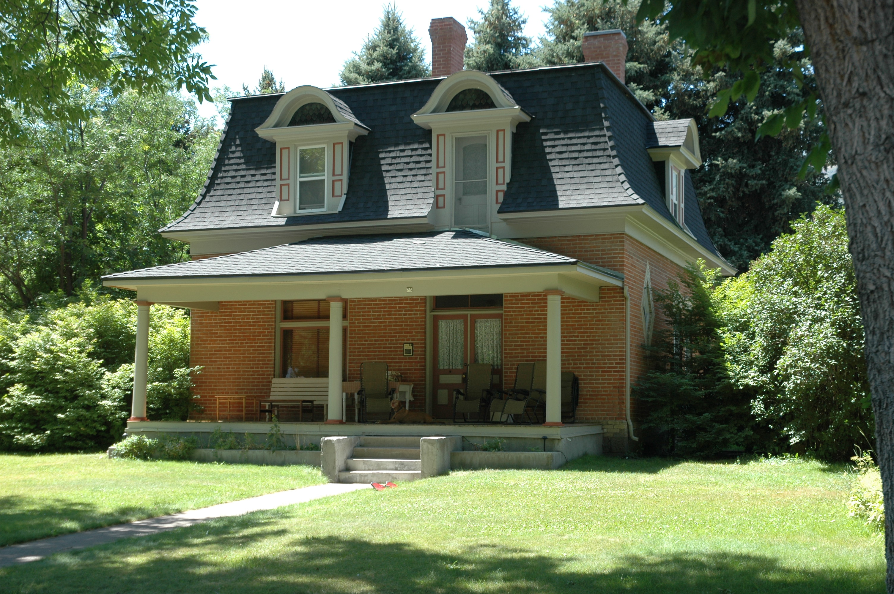 The George Bradshaw House, a historic home in Wellsville, Utah, United States.